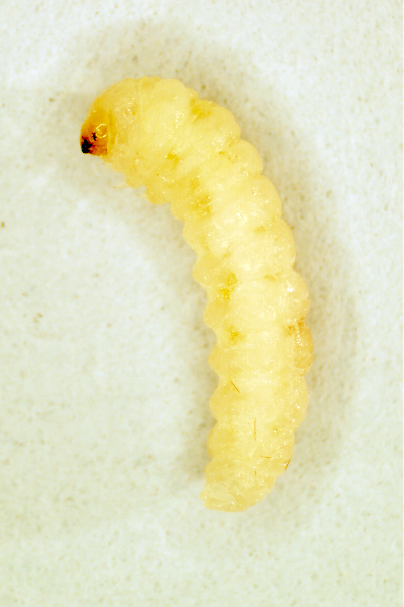 Angoumois grain moth, Sitotroga cerealella. This insect is a pest in stored grains.